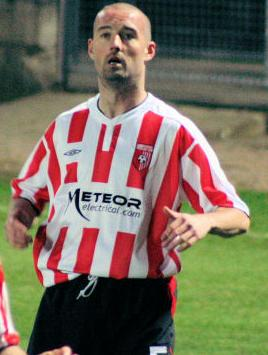 Dave Rogers. Cropped personal photo.